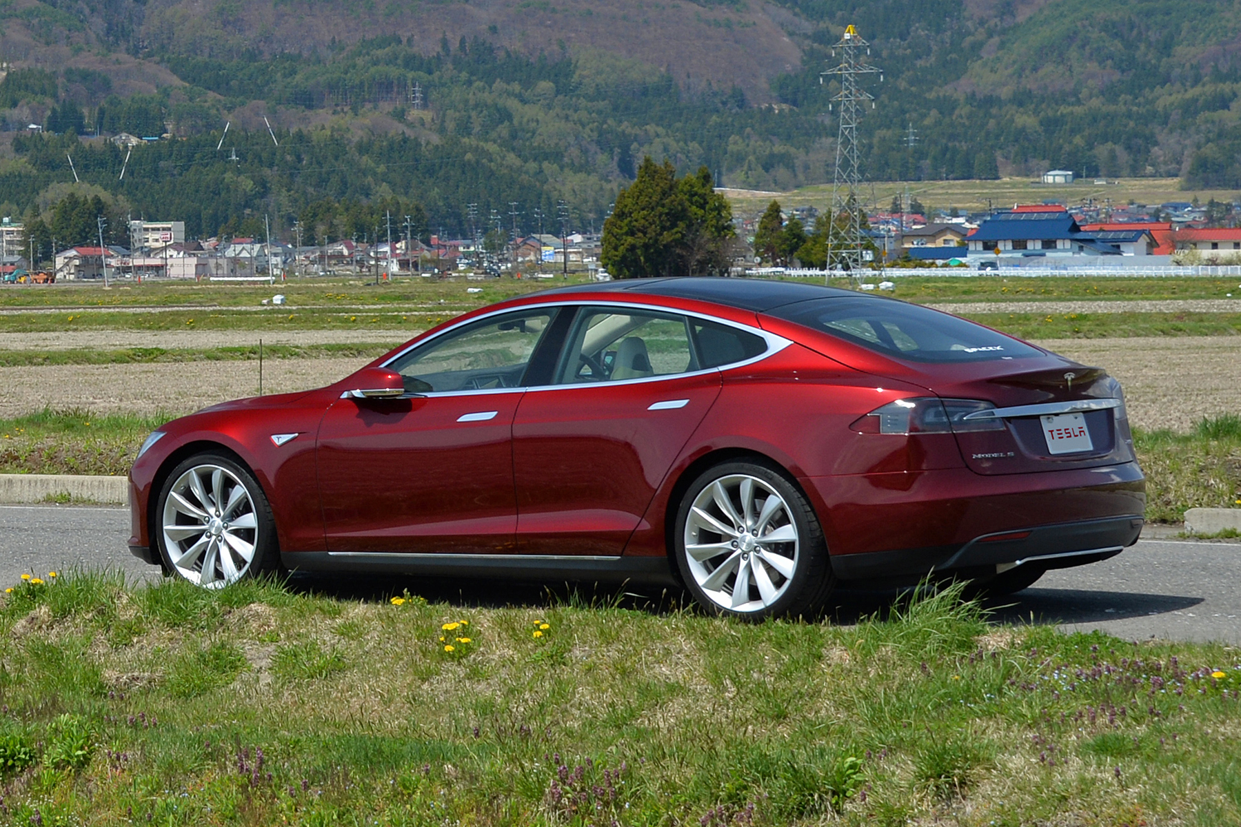 Tesla Model S at the Fukushima Prefecture, Japan